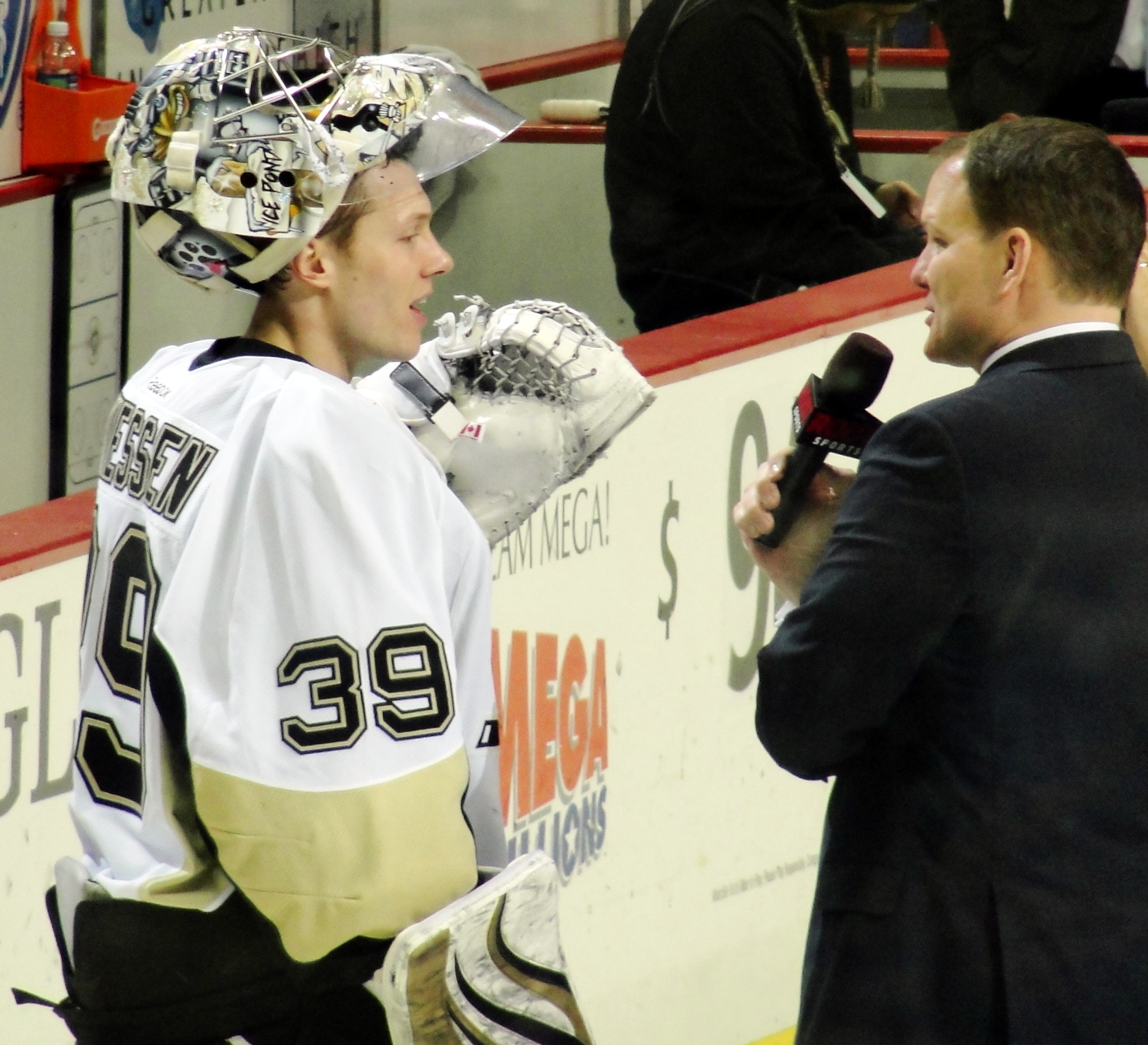 Pittsburgh Penguins goaltender Brad Thiessen being interviewed on the ice by Root Sports Pittsburgh reporter Dan Potash following his first career victory in his first NHL start, February 26, 2012 against the Columbus Blue Jackets at Consol Energy Center in Pittsburgh, PA.